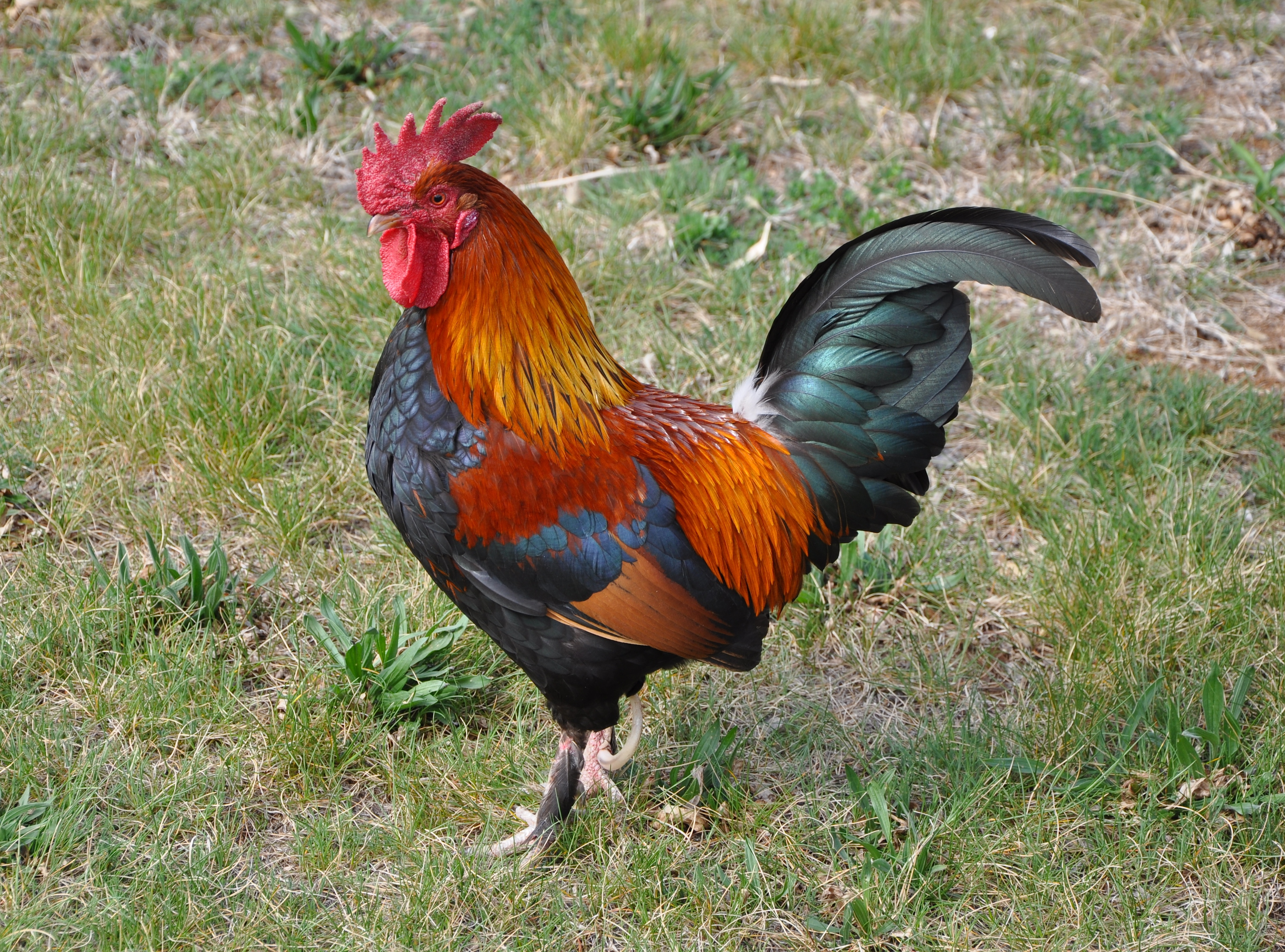 RoosterSlovenščina: Petelin štajerske kokoši